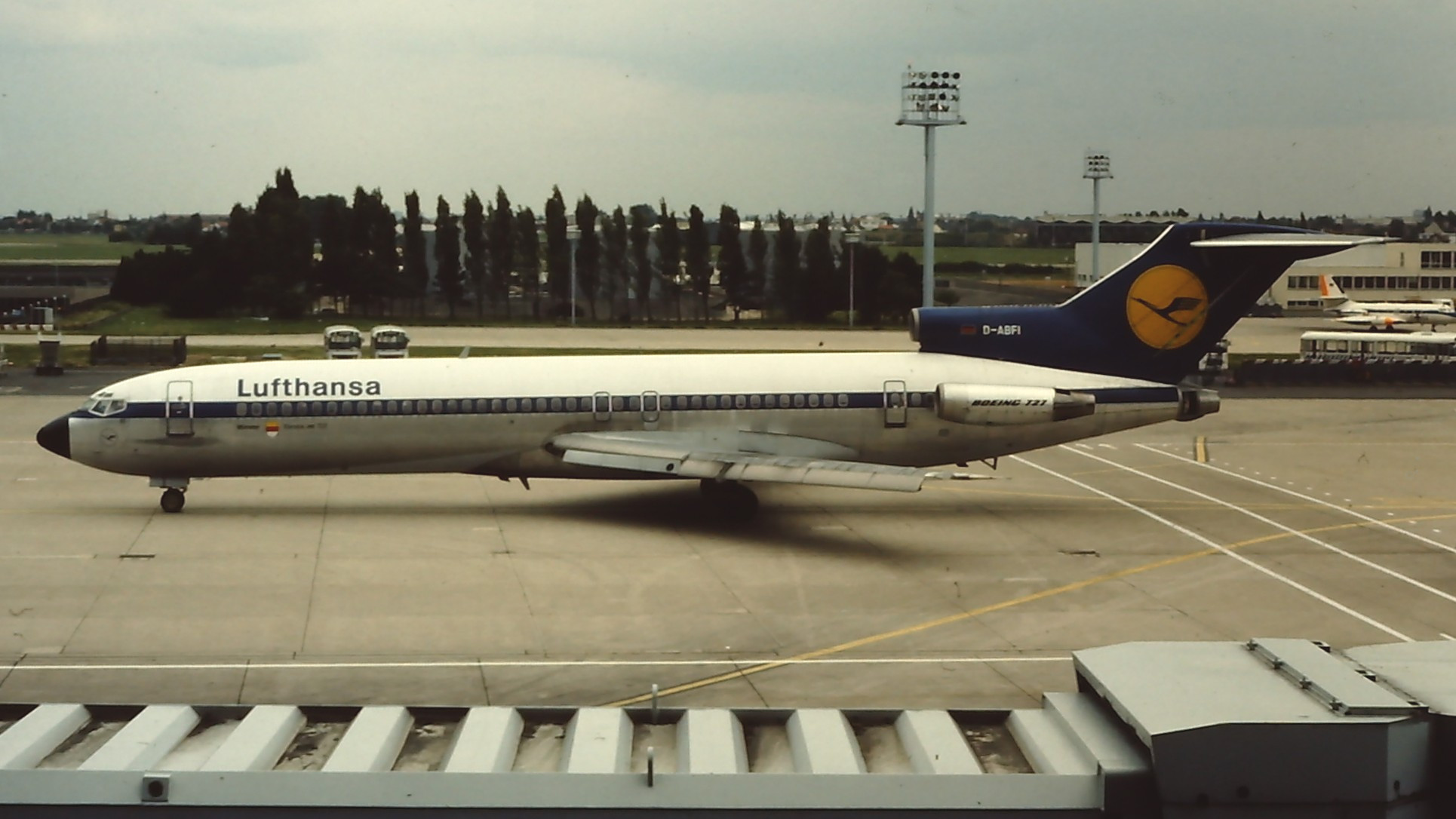 D-ABFI a Boeing 727-200 of Lufthansa at Paris-Orly Airport.